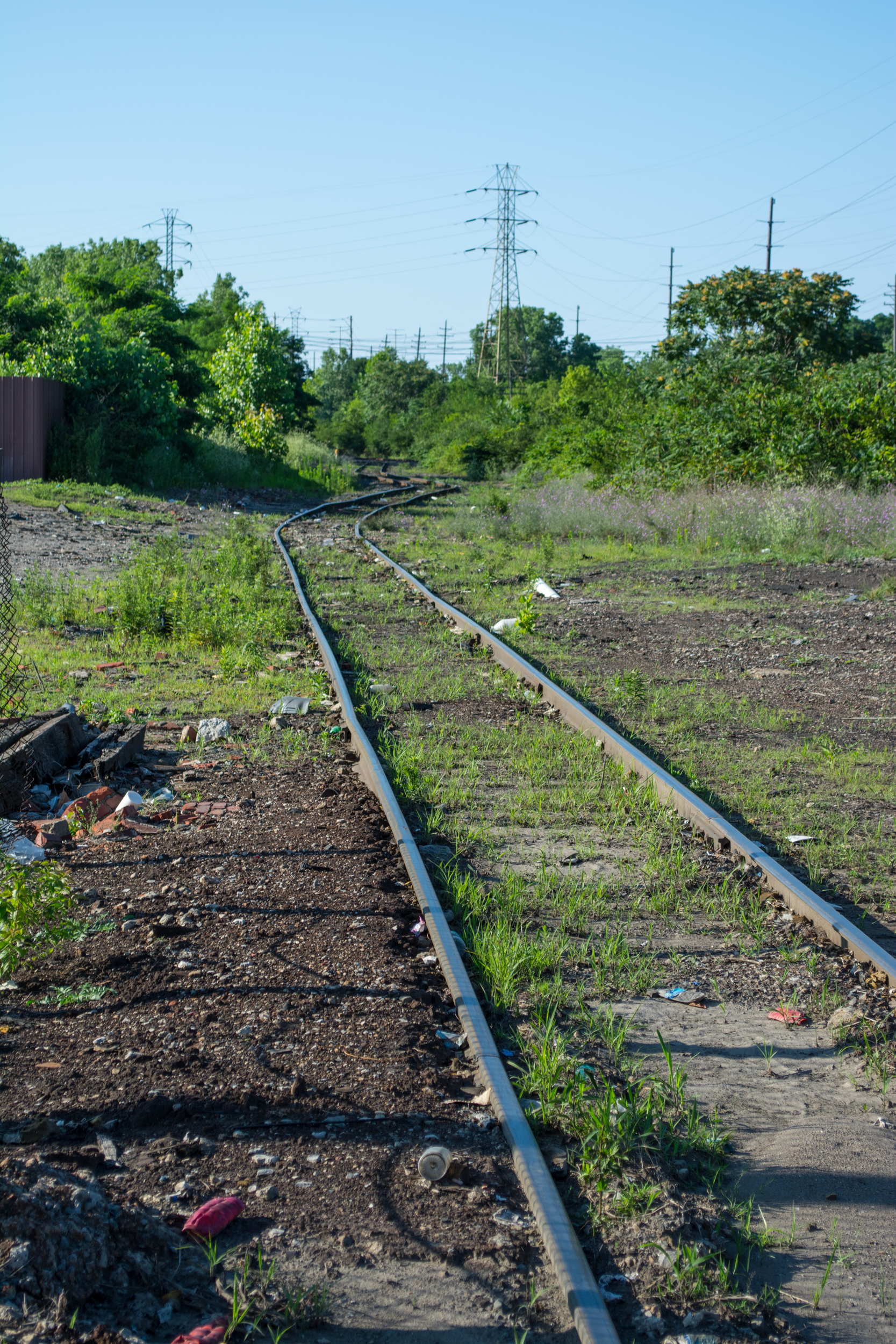 Looking north from Aetna Road at the tracks of the Cleveland & Mahoning Valley Railroad in the Union-Miles Park neighborhood of Cleveland, Ohio, in the United States.